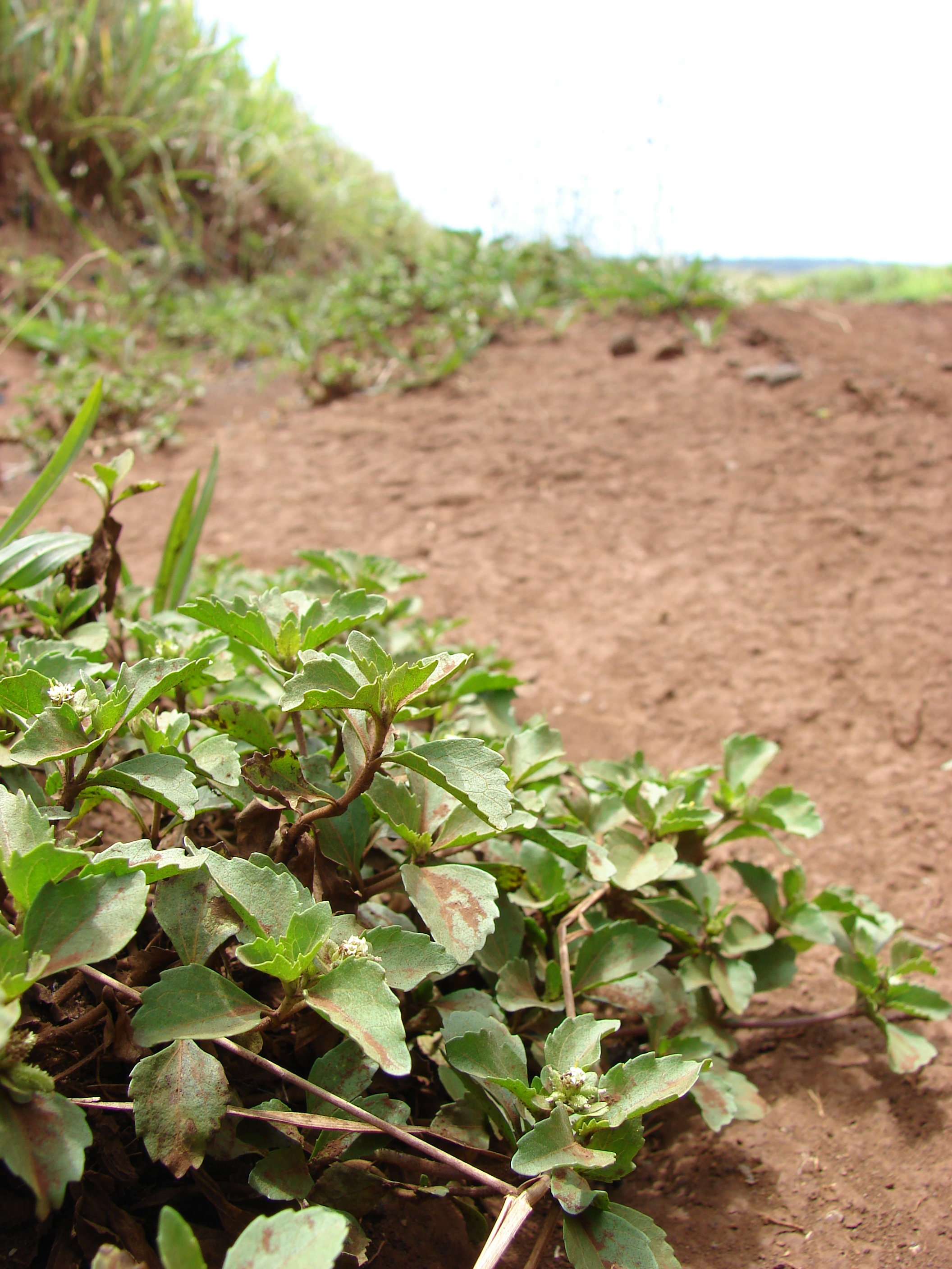 Acanthospermum australe (habit). Location: Lanai, Polihua Rd